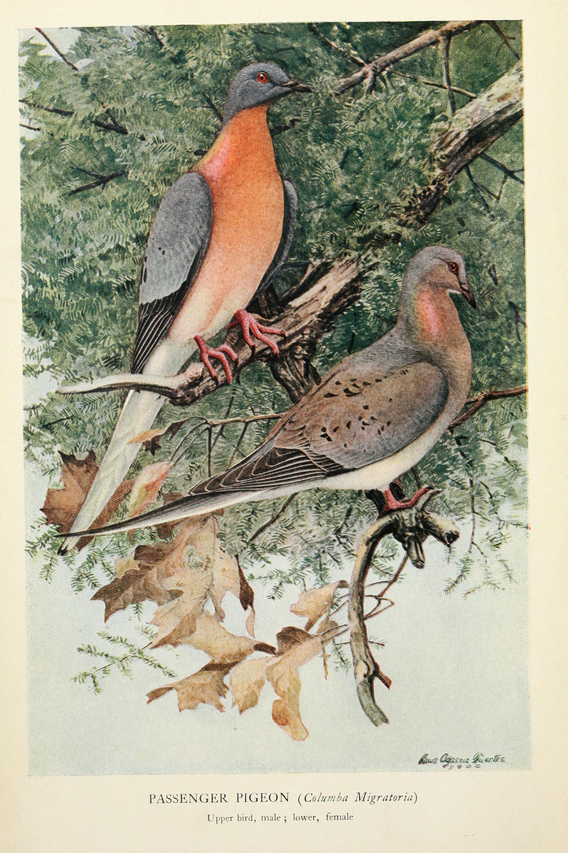 Frontispiece from a volume of articles, The Passenger Pigeon, 1907 (Mershon, editor). The caption reads: "PASSENGER PIGEON (Columba Migratoria) Upper bird, male ; lower, female